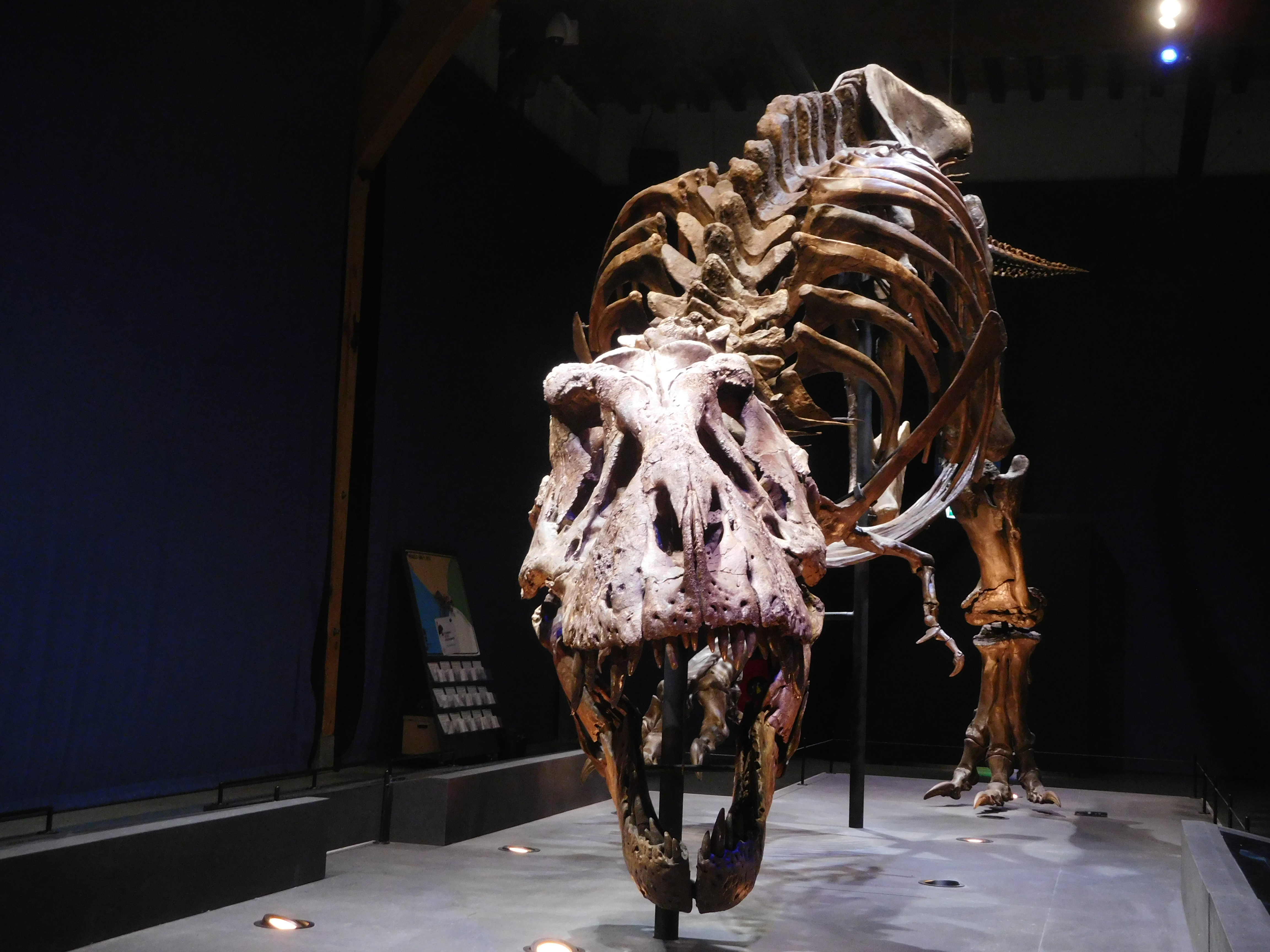 Presentation of the Tyrannosaurus specimen RGM 792.000 in the 2016-2017 exposition "T. rex in town" of the Naturalis Biodiversity Center, Leiden, the Netherlands.